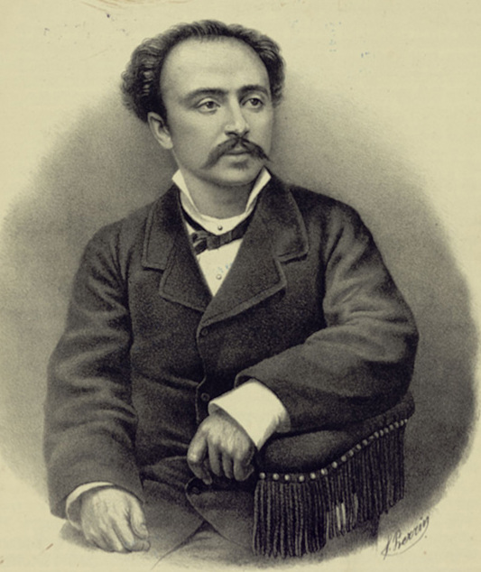 Portrait of Luigi Canepa, composer (1849-1914), before 1885.